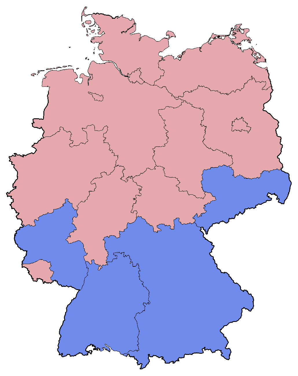 Electoral map showing the party list vote results (Zweitstimmen) of the 2005 Bundestag (German parliament) elections by state. Light blue denotes states where the CDU/CSU had the plurality of the votes, and pink denotes states where the SPD had the plurality of the votes.